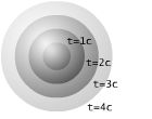 special relativity -null spherical space